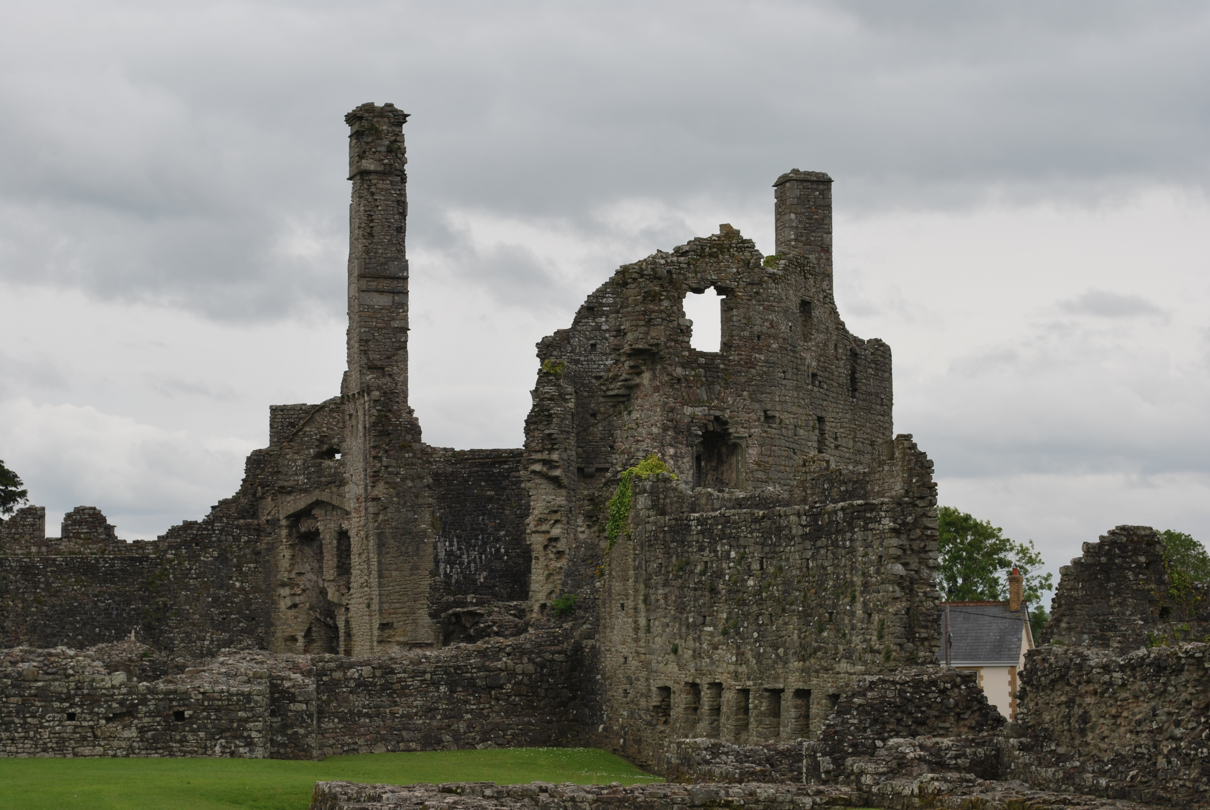 The 12th century Norman keep of Coity Castle near Bridgend. Modified in the 14th and 16th centuries.